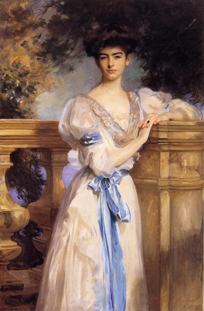 Gladys Vanderbilt John Singer Sargent -- American painter 1906 Private collection Oil on canvas 152.4 x 96.5 cm (60 x 40 in.) Inscribed: (Lower right:) John S. Sargent/1906 Jpg: .the-athenaeum